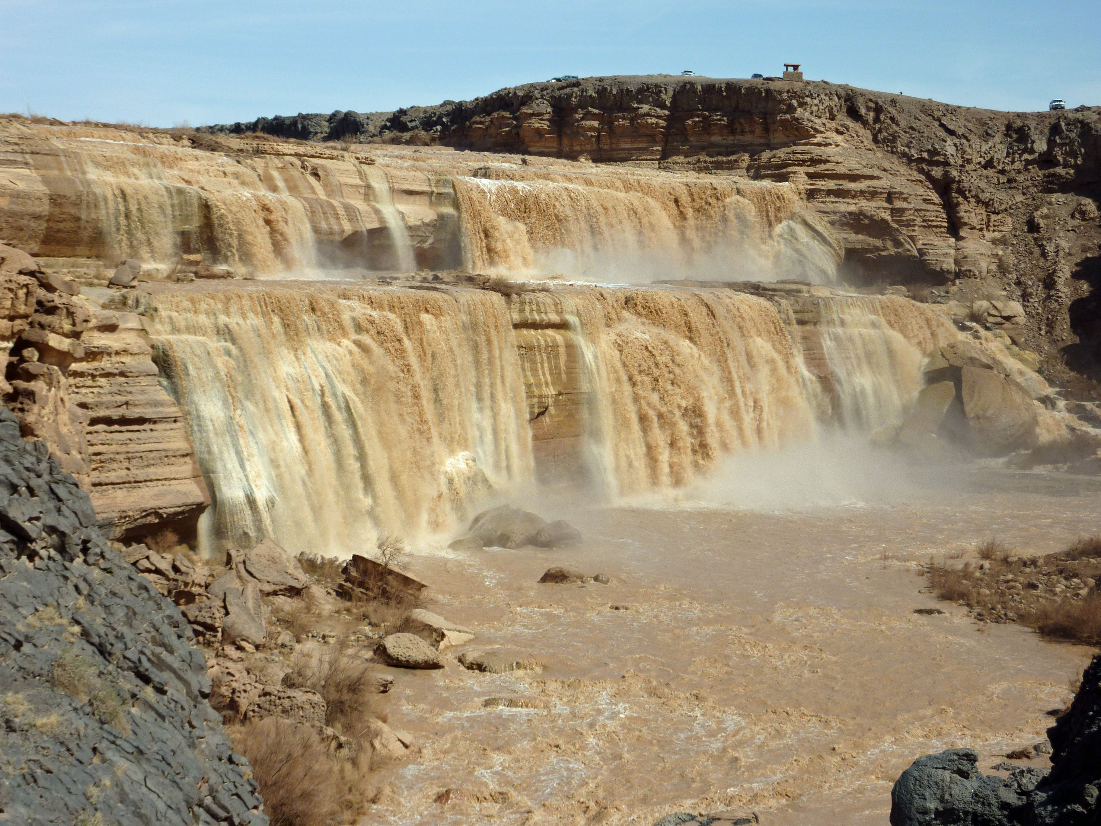 The Grand Falls of the Little Colorado River. Photo taken in early April 2010. The Grand Falls are located about 30 miles (48 km) from Flagstaff, Arizona in the Painted Desert on the Navajo Indian Reservation.